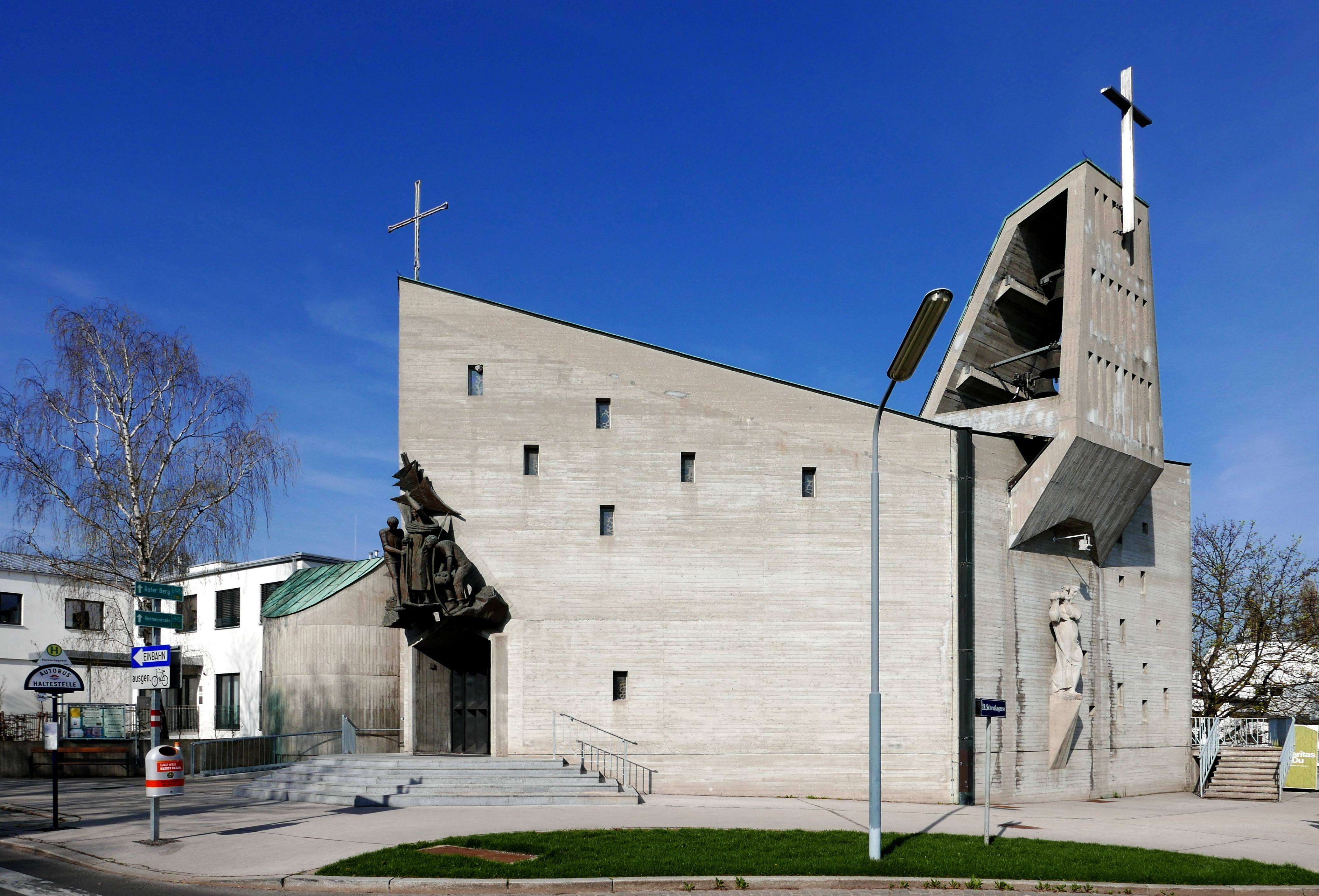 Parish Church Zum Guten Hirten and Lanterihaus, Vienna, Hietzing, Austria